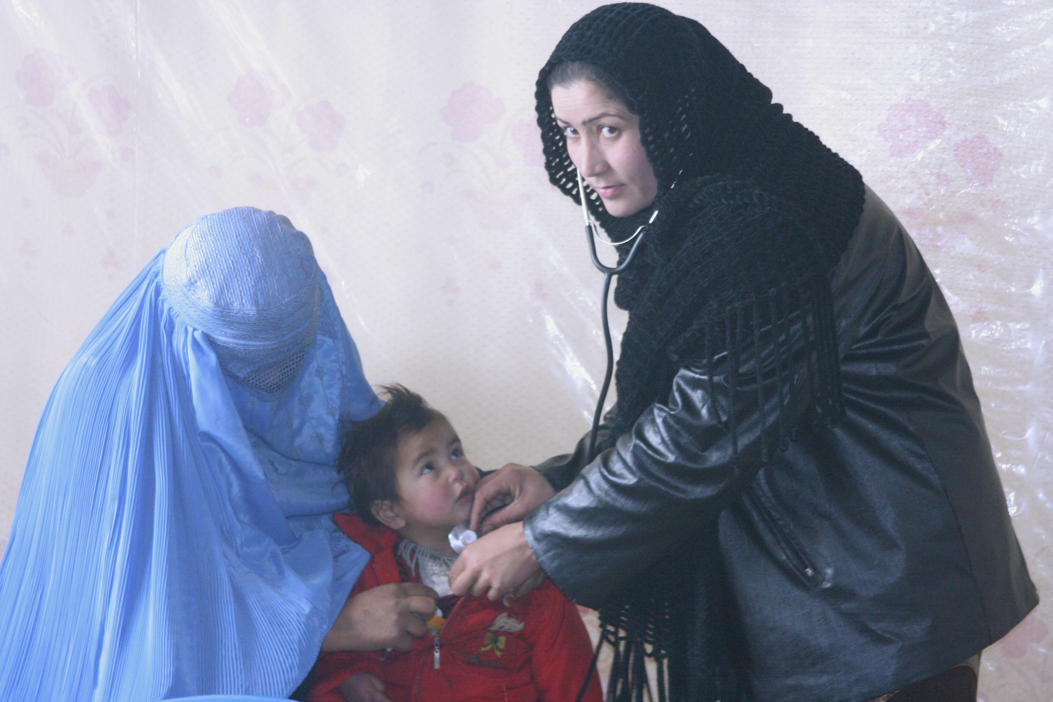 Afghan nurse treating a child